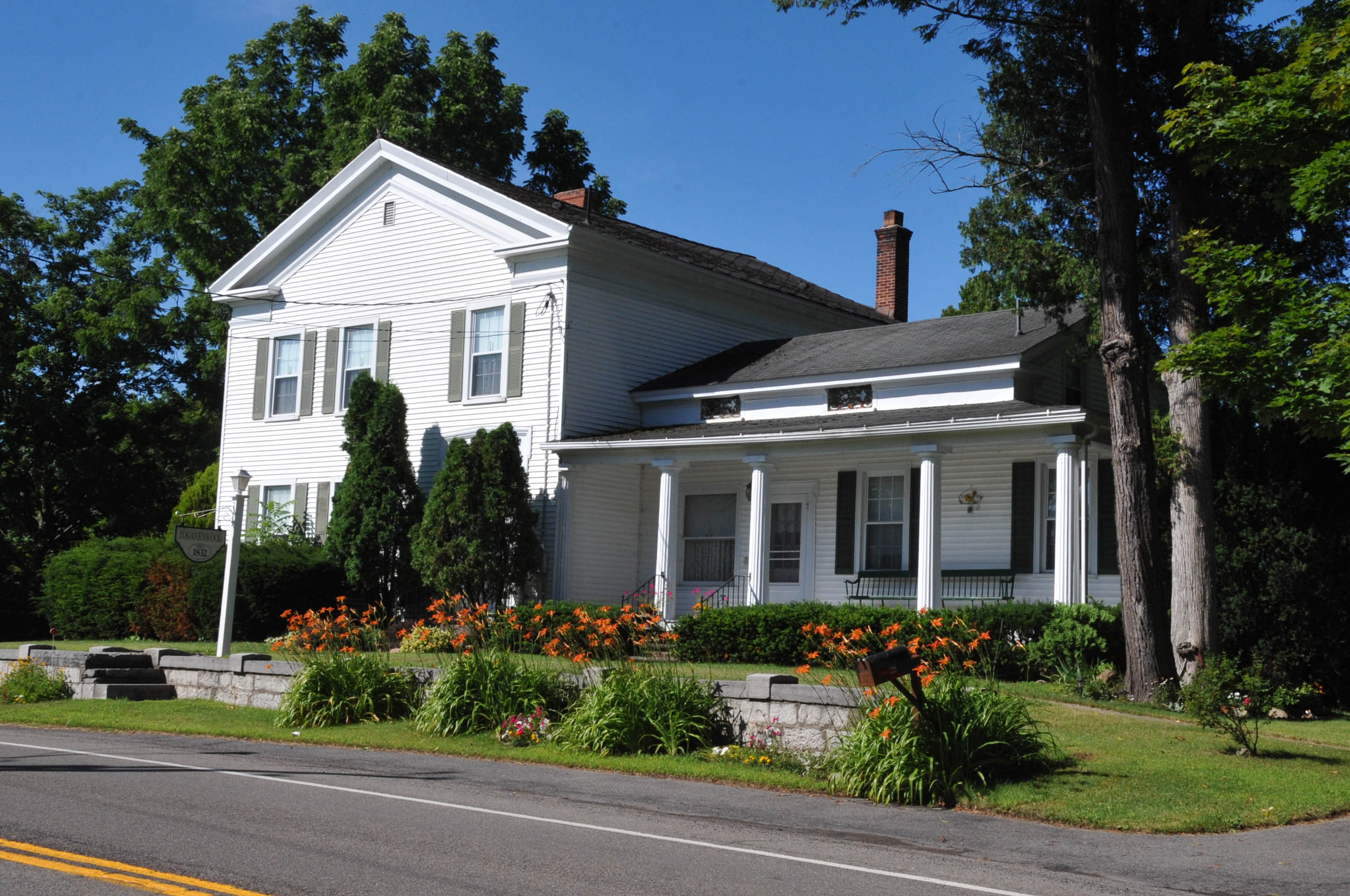 1832 VERNACULAR GREEK REVIVAL FARMHOUSE; ALSO KNOWN AS TOGANENWOOD